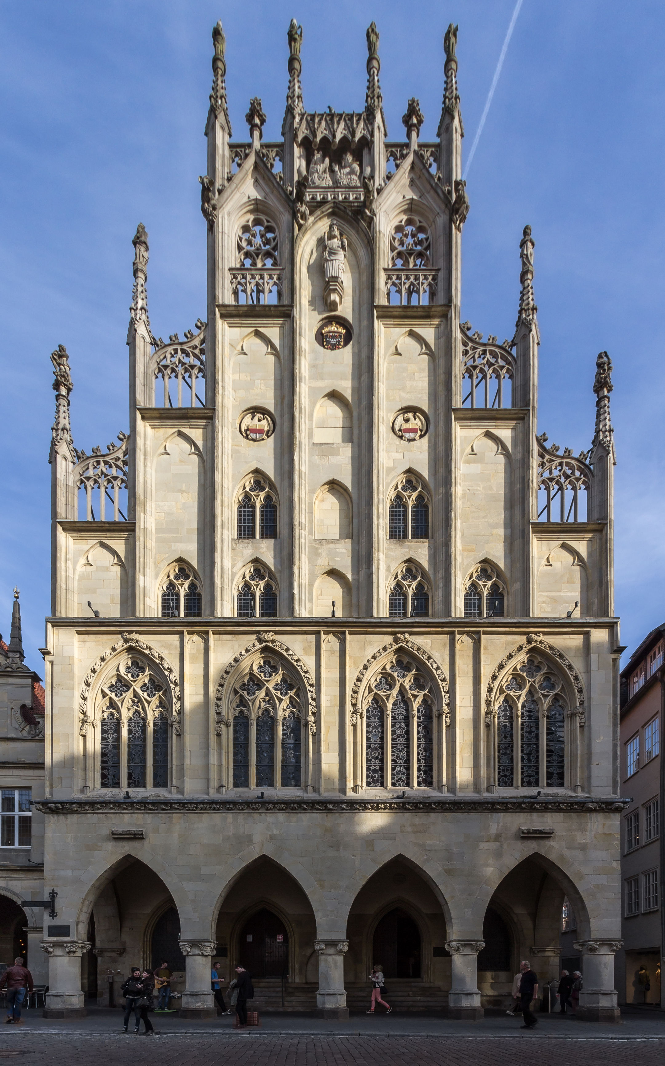 Historical City Hall, Münster, North Rhine-Westphalia, Germany This image shows a heritage building in Germany, located in the North Rhine-Westphalian city Münster.